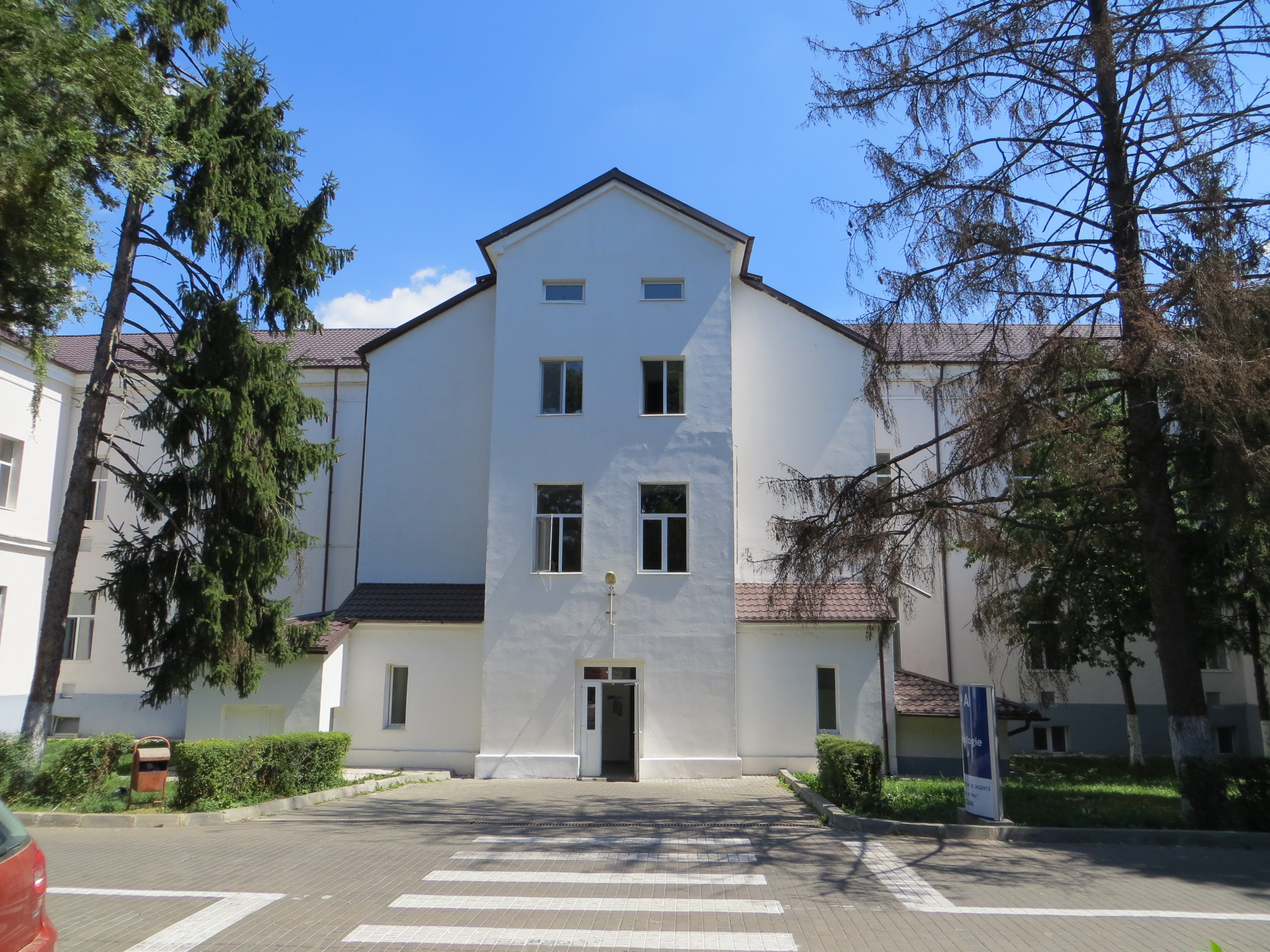 The Old Hospital in Suceava.